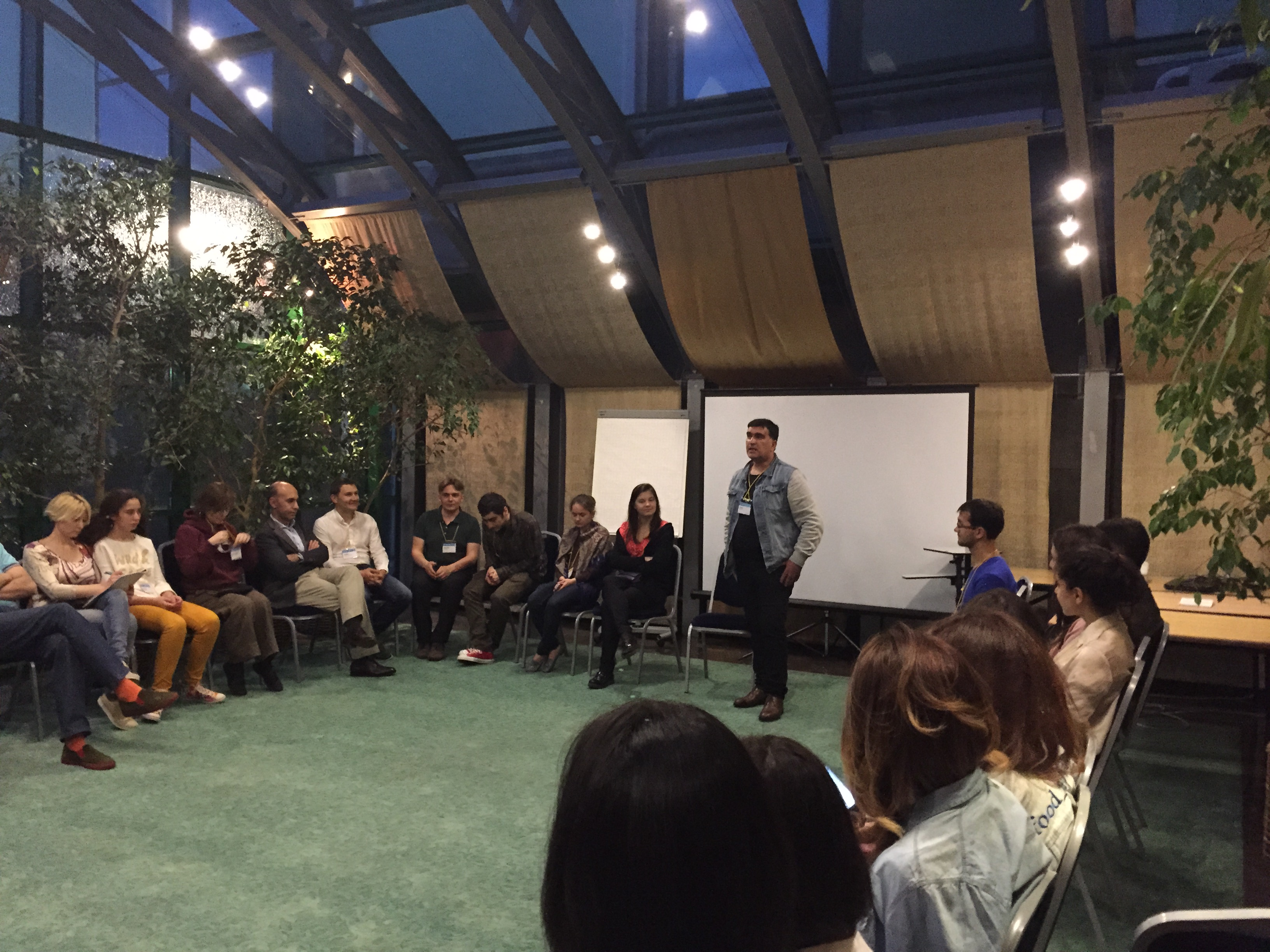 Armenian historian Aristakes Ghazinyan at «Lsaran» Conference, 2015 May 22